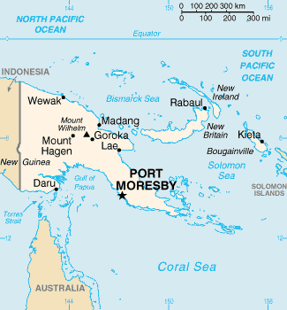 Map of Papua New Guinea, showing major cities.